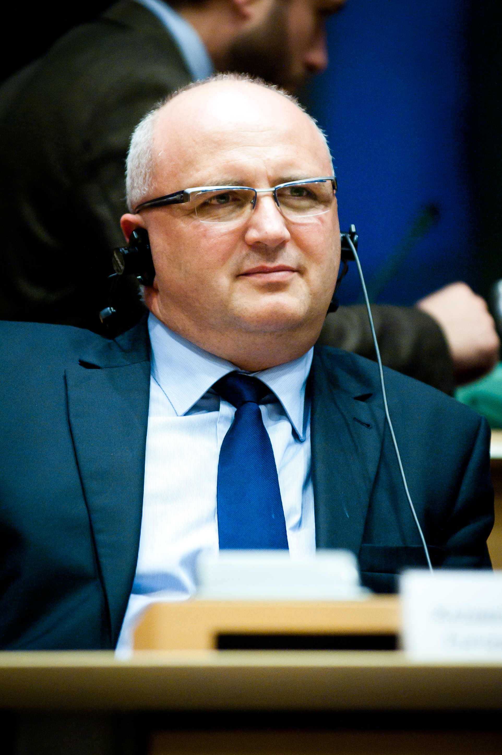 Europoseł Bogdan Marcinkiewicz w PE